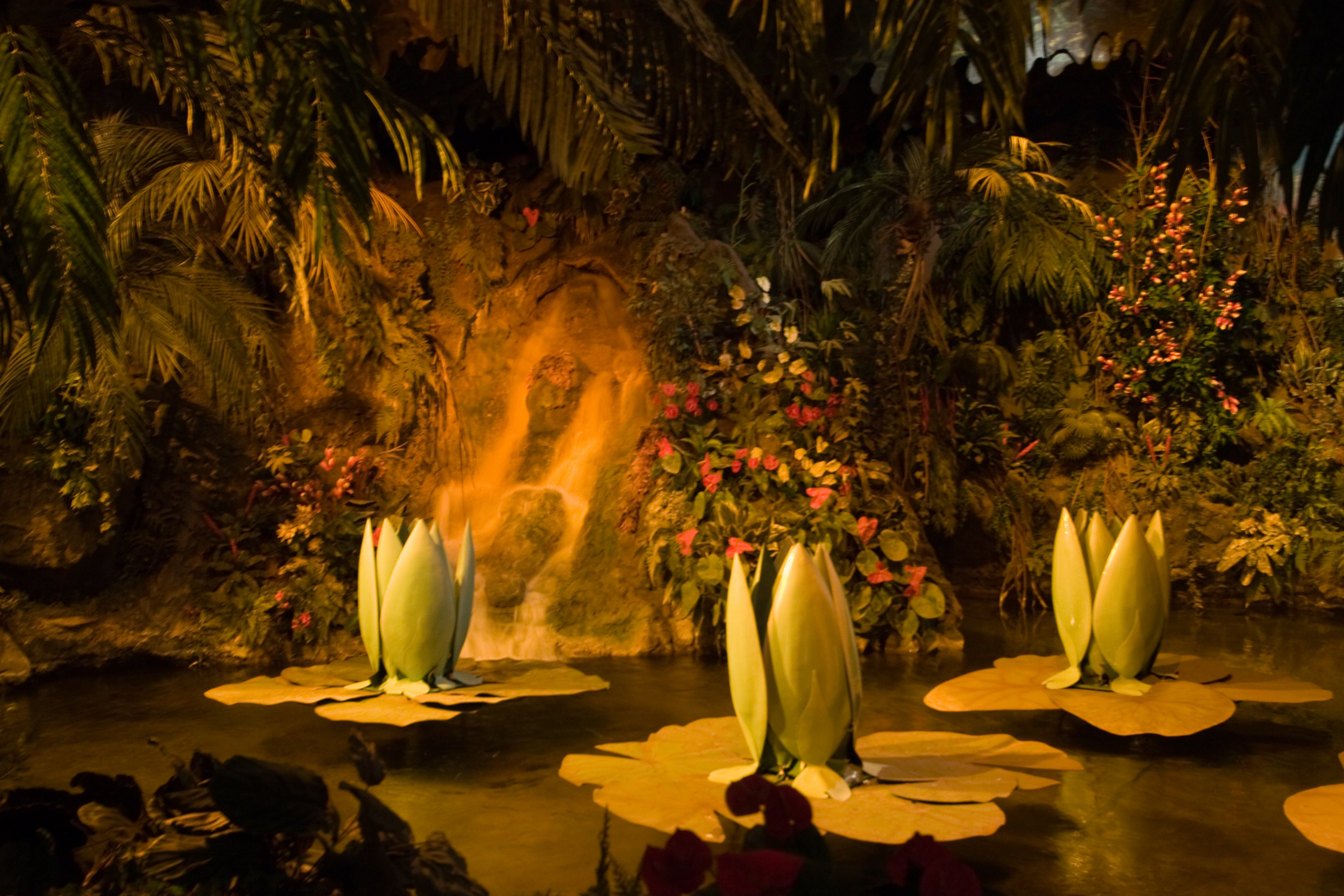 Indian Water-lilies (Fabiola de Mora y Aragon) at the Efteling.